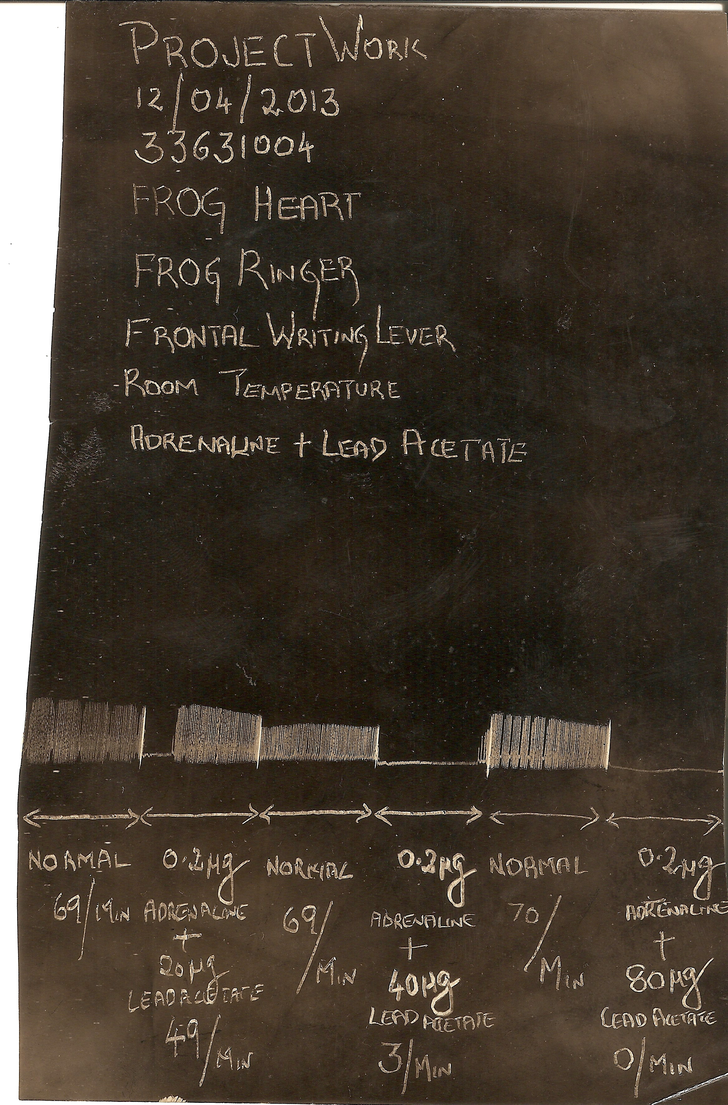 This kymographic recording shows the effect of lead (lead acetate), when infused along with adrenaline into the frog heart experimental set up.